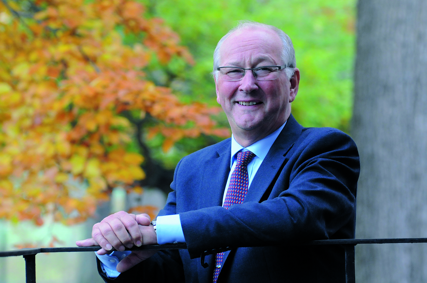 Leif Larsson